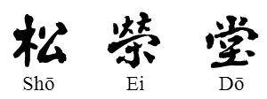 Shoeido (松榮堂) kanji characters